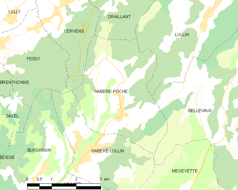 Map of French municipality Habère-Poche